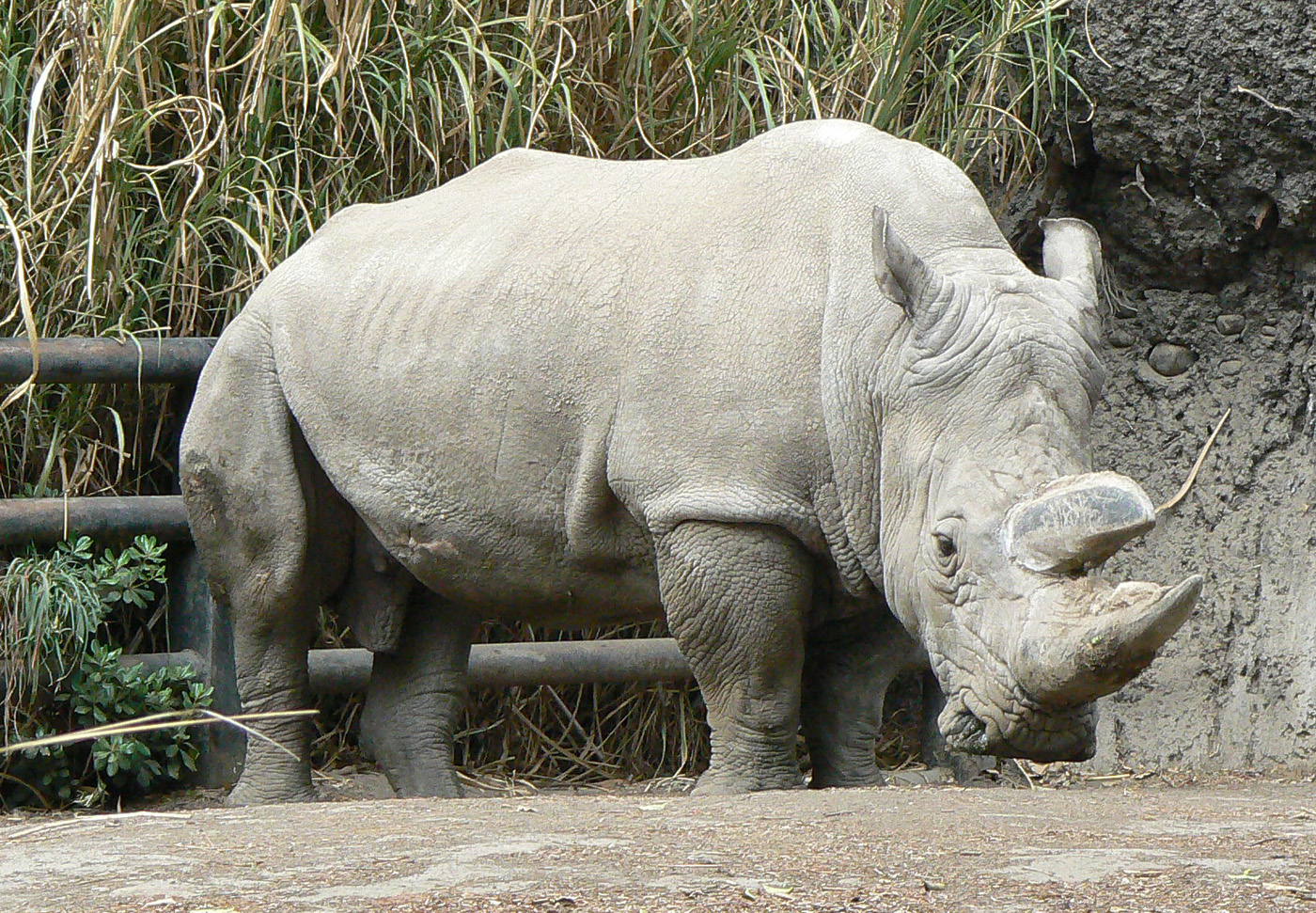 white rhinoceros from the zoo in Mexico City